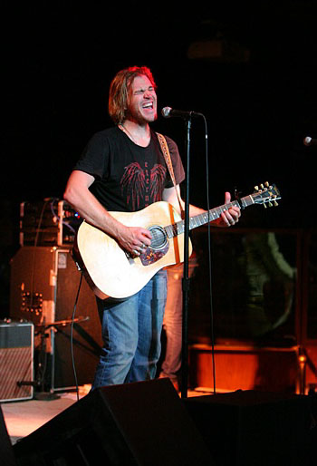 Jack Ingram at The Graduate in San Luis Obispo, California.